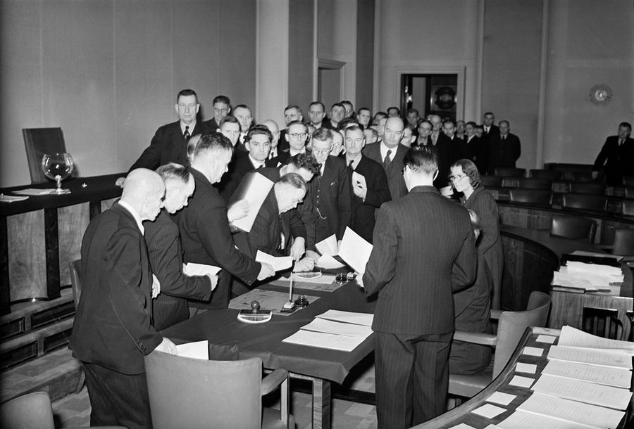 The proxies of the electors of 1937 are controlled as they go to a second presidential election December 19, 1940.